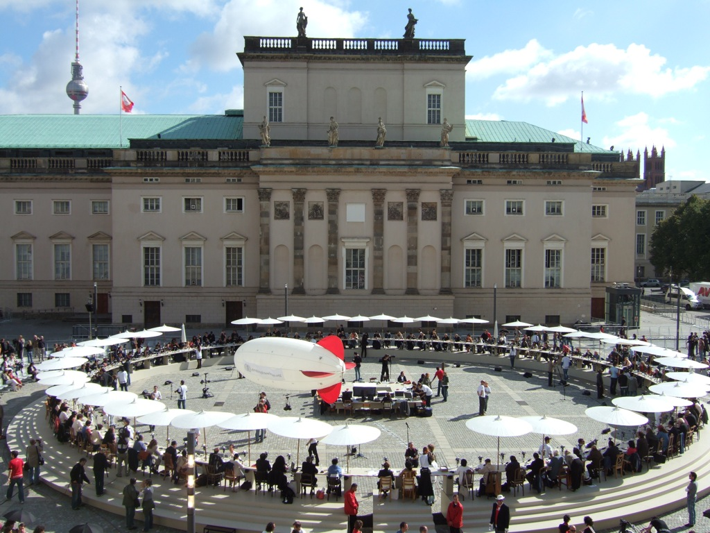 The Table of Free Voice, discussion organized by the dropping knowledge project, Bebelplatz Berlin, 9 September 2006